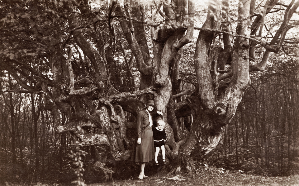 Hornbeam near Liban, famous tree, Czech Republic